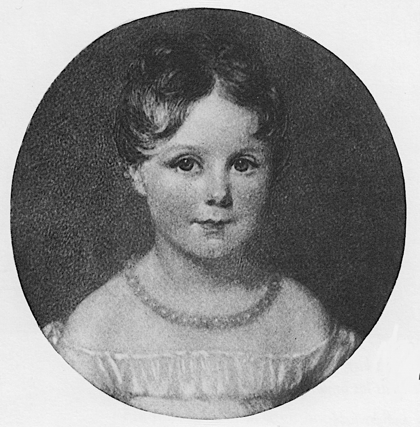 Ada Byron at age four, from a miniature in a locket sent to Lord Byron by his sister.